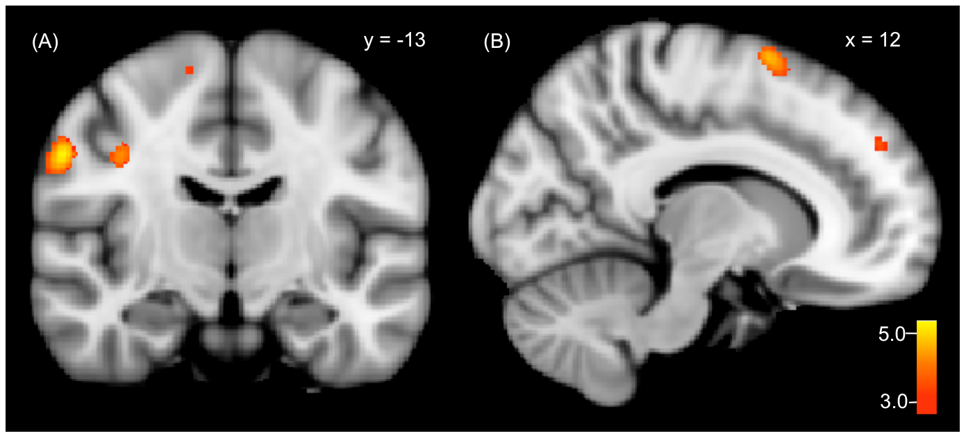 Figure 1. Significant rCBF increases in genuine EP (DIDep) compared to genuine ANP (DIDanp) in (A) the primary somatosensory cortex, primary motor cortex, premotor cortex and in (B) the pre-SMA and DMPFC.